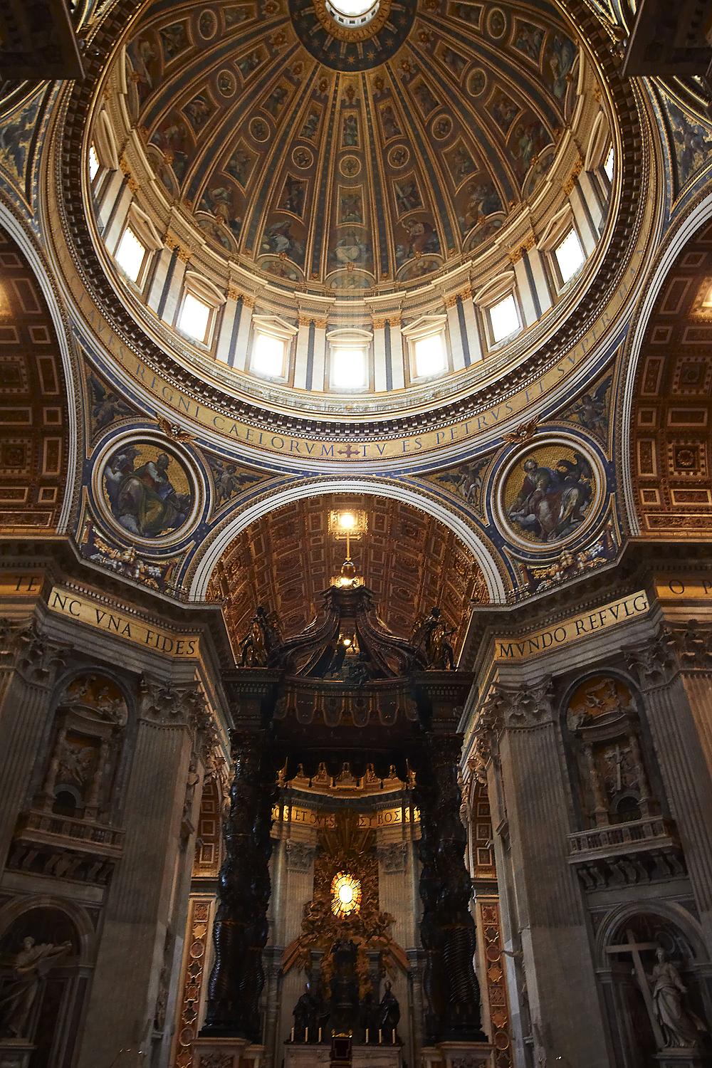 this is the picture taken in san peter church